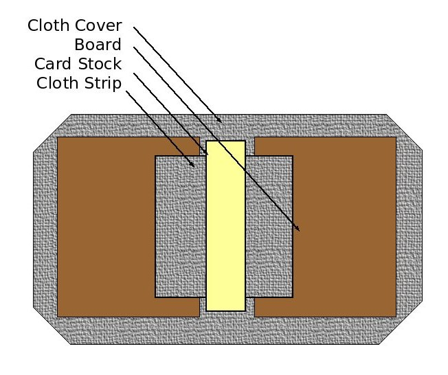 Illustration of how to layout the materials needed for making a cover for a hard-bound book. Drawn by Jim Thomas, 17 Feb, 2006.